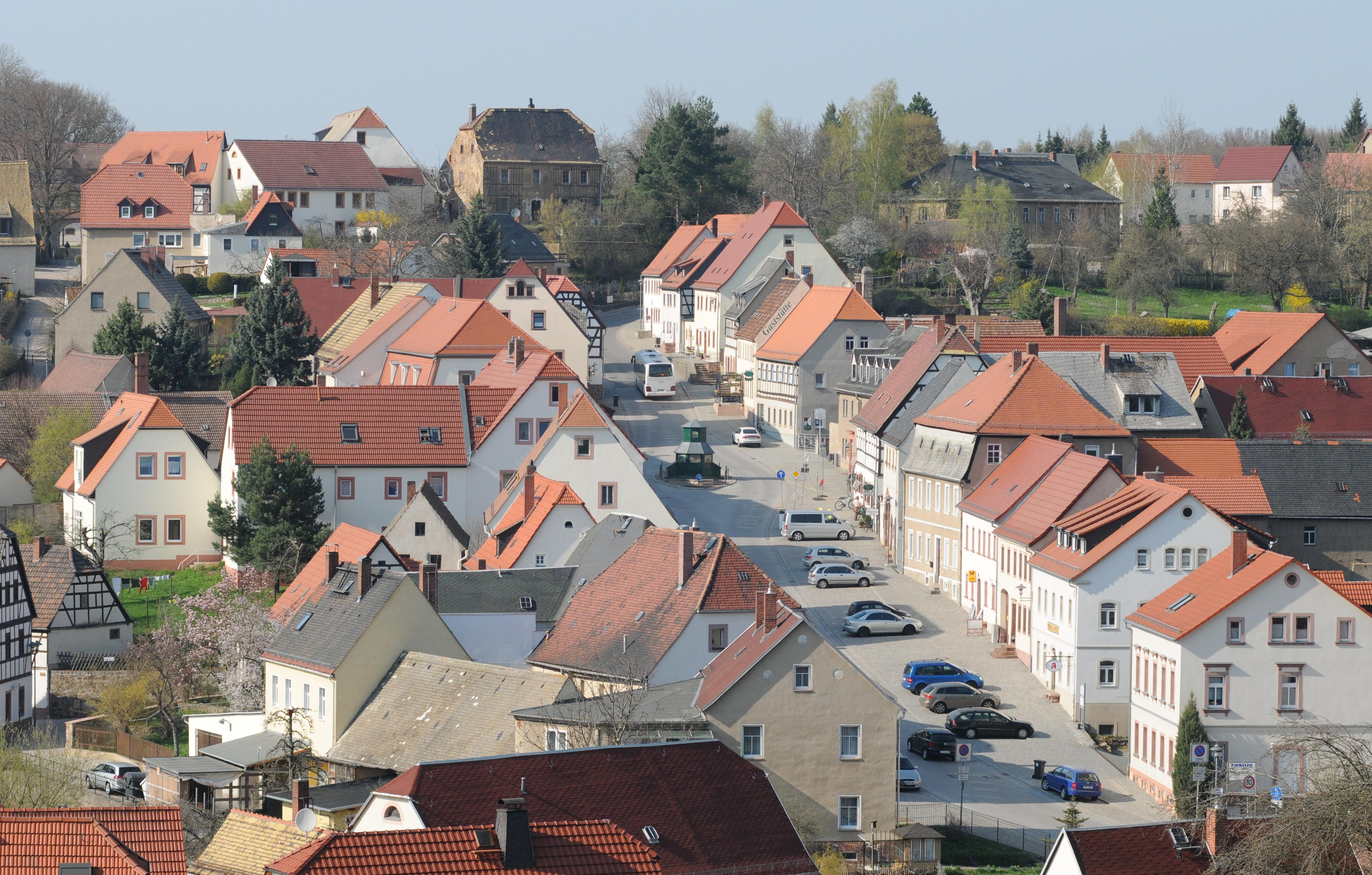 city of Kohren-Sahlis (Saxony, Germany)